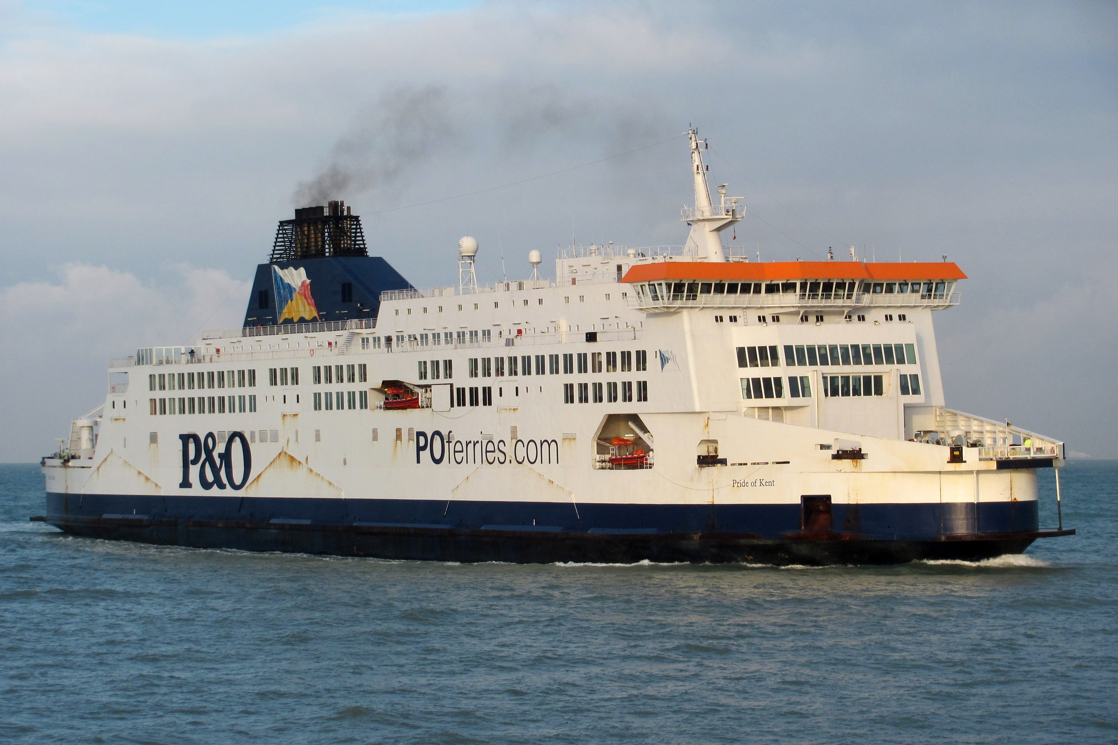 P&O Pride of Kent entering the port of Calais.